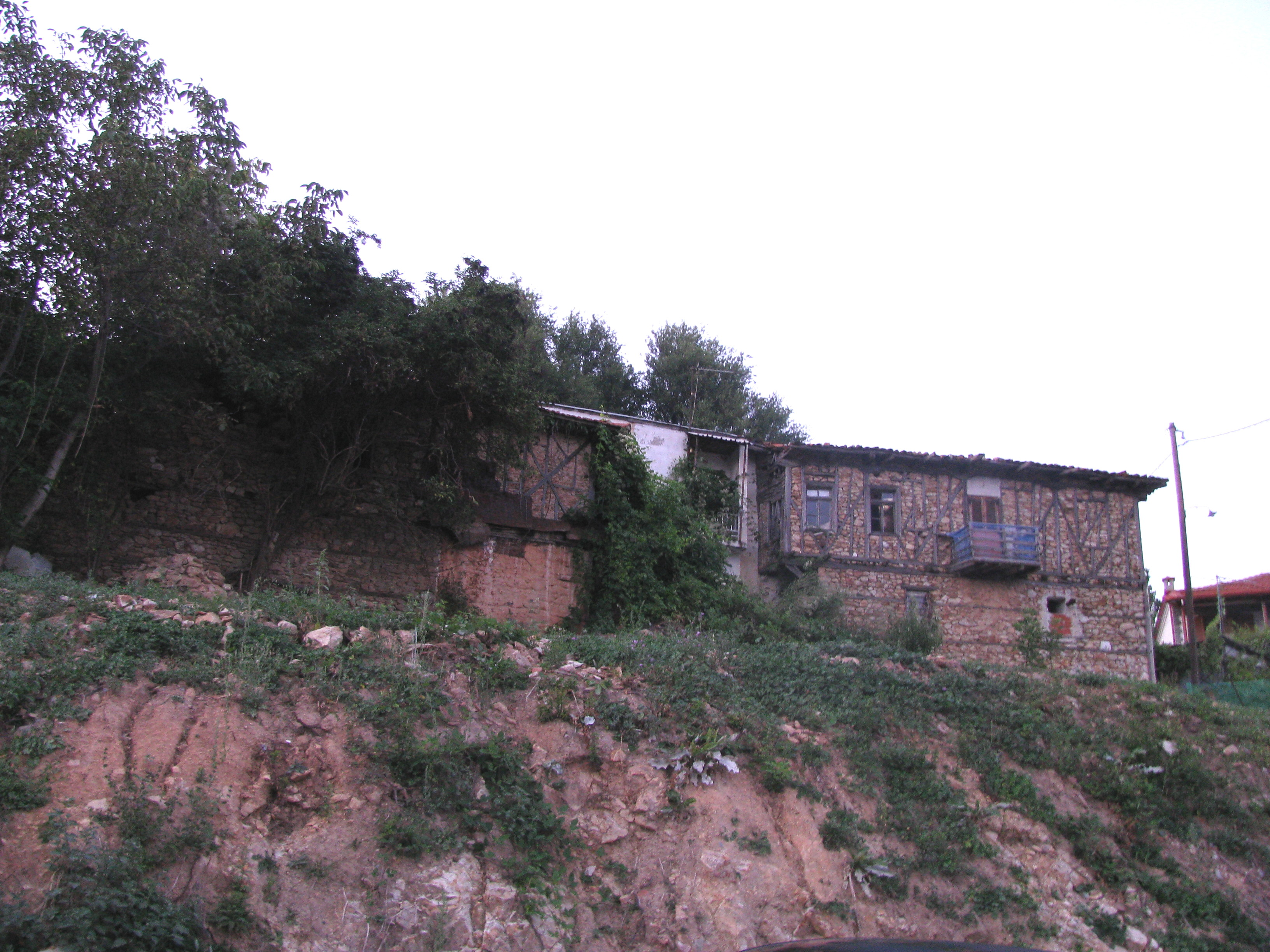 village of Kastenari/Barovica, Aegean Macedonia, Greece